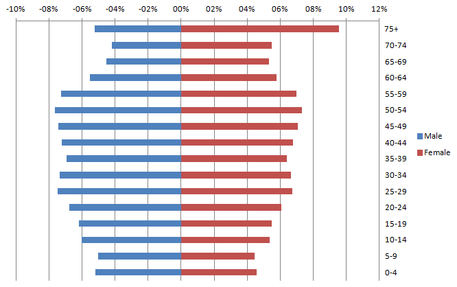 Croatian population pyramid 2009 - source: Croatian Bureau of Statistics 2010 Yearbook data